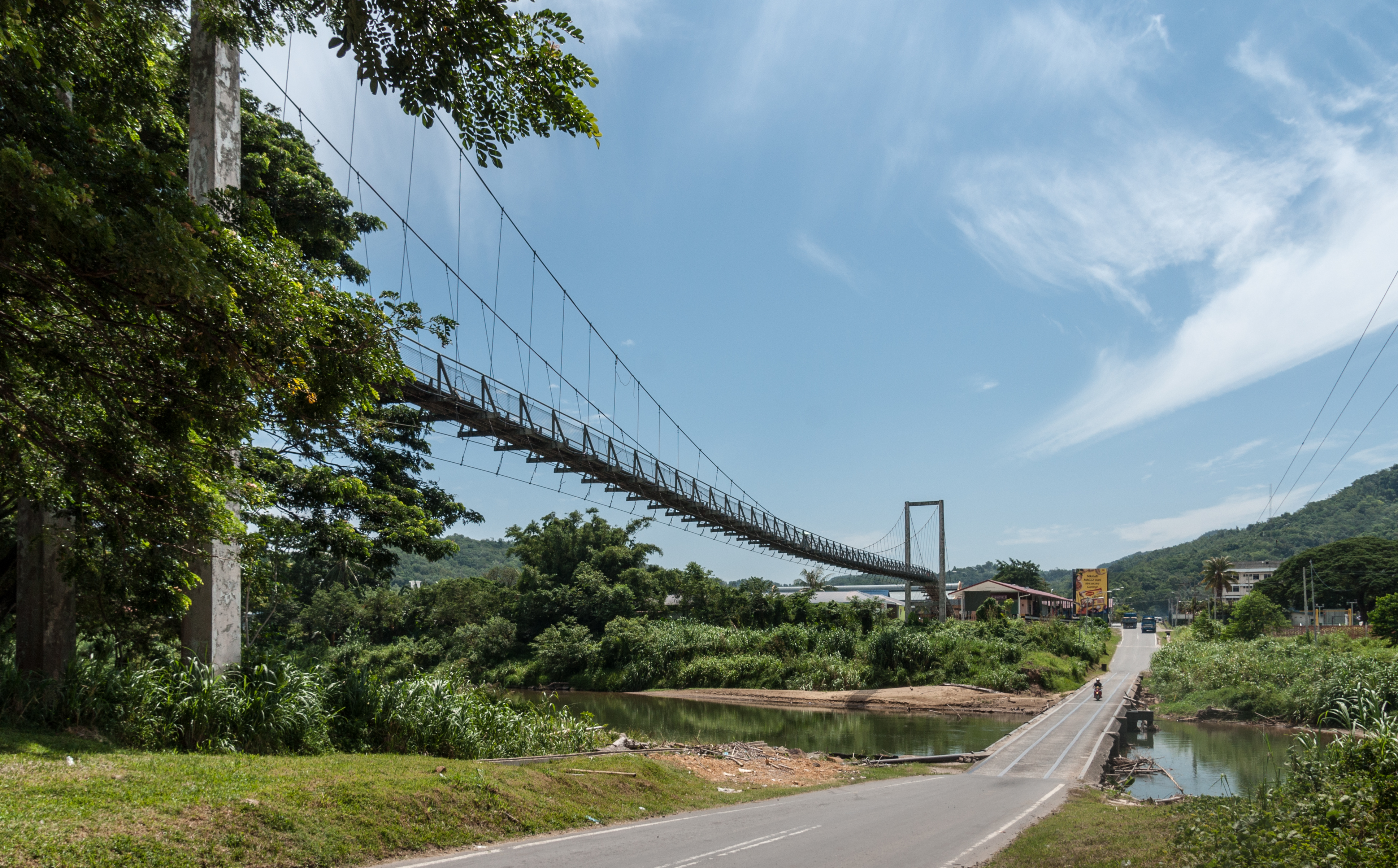 Swinging Bridge and old Land Bridge over the Sungai Tamparuli in Tamparuli, Sabah